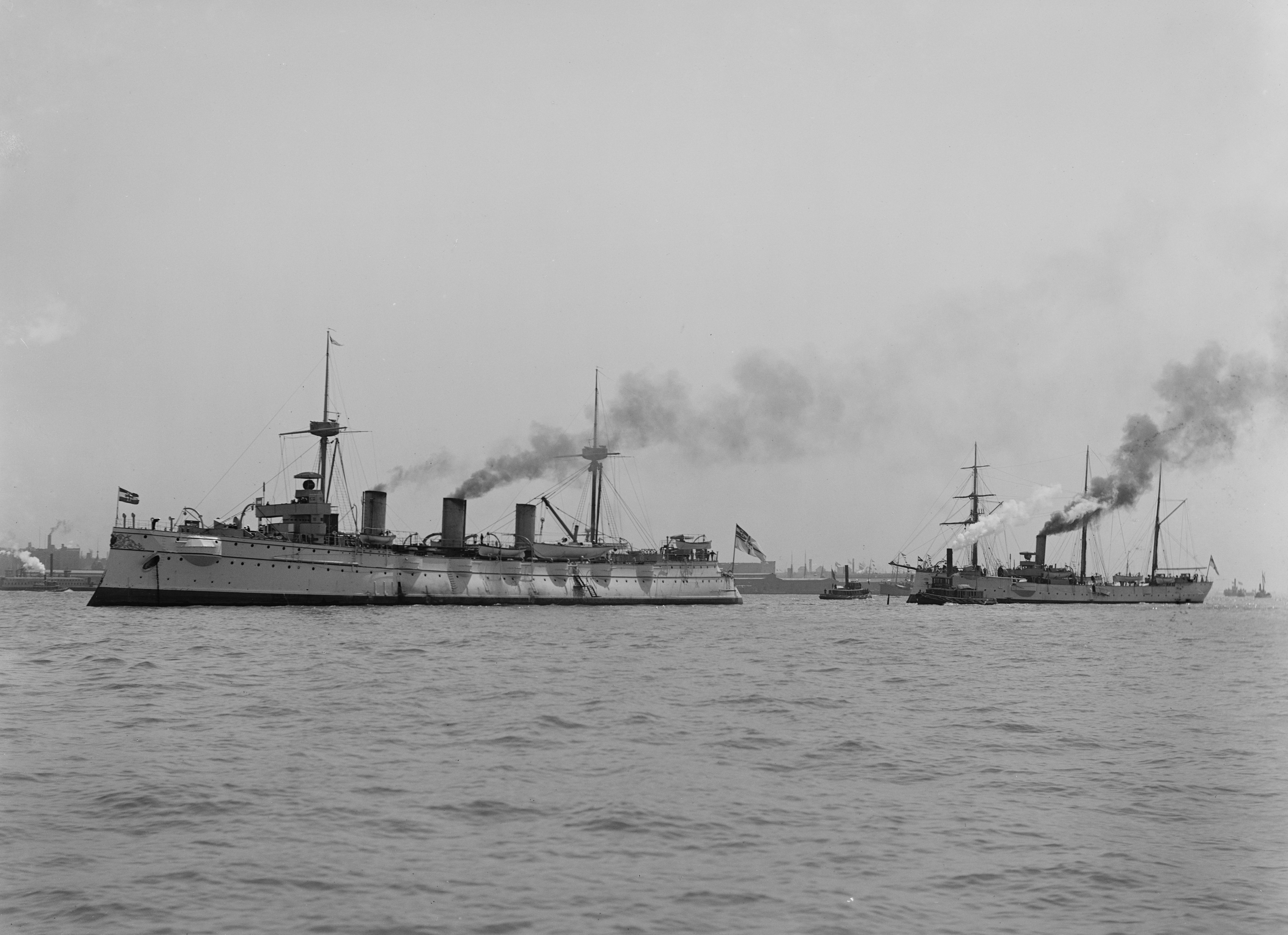 The Imperial German Navy cruisers SMS Kaiserin Augusta (left) and SMS Seeadler in New York (USA) in 1893. The ships arrived on 26 April. Reproduction Number: LC-D4-5512